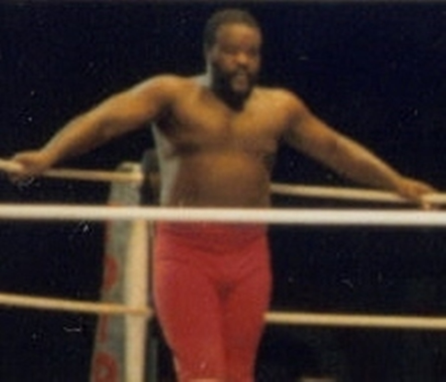 Sylvester Ritter, known as Junkyard Dog. I took this photo myself at the Sydney Entertainment Center some time during the mid to lat 80s. This is entirely my own work.